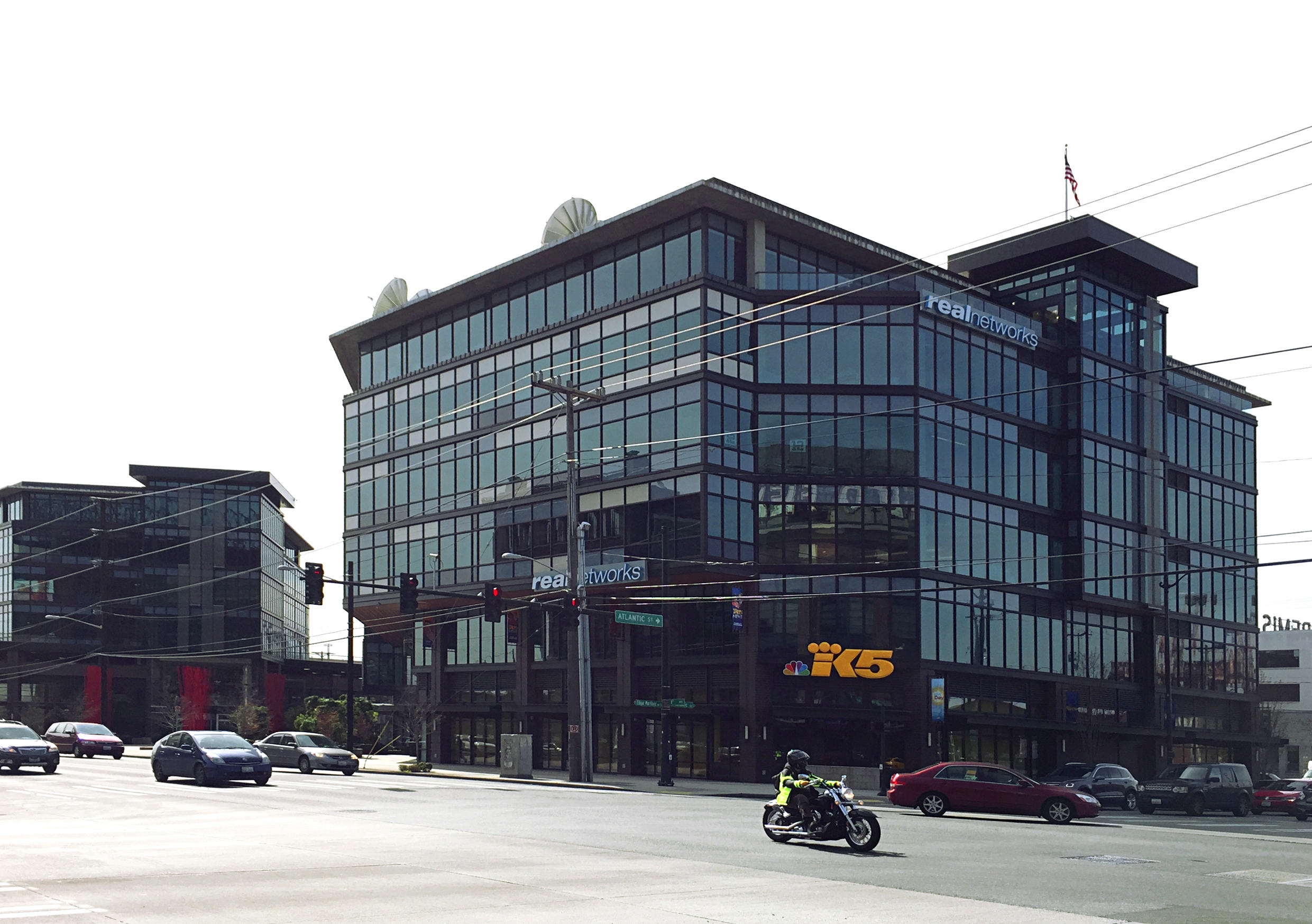 Home Plate Center - RealNetworks and KING 5